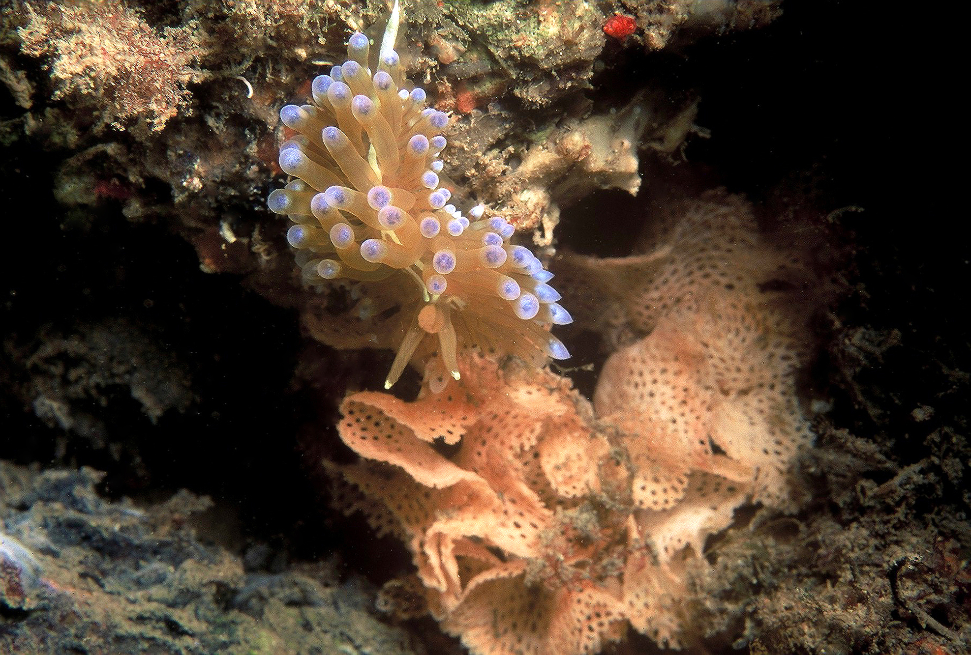 Janolus cristatus (della Chiaje, 1841), Reteporella grimaldii Julien in Julien & Calvet, 1903 - Banyuls-sur-Mer : 08/92